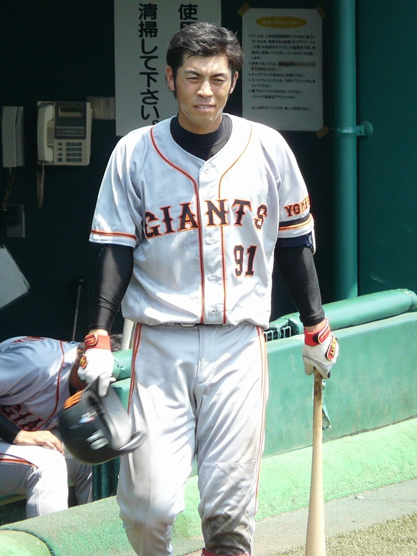 Kazunao Yamamoto, infielder of the Yomiuri Giants, at Kobe Sports Park Sub Baseball Ground.